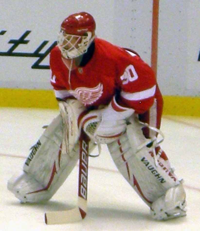 Chris Osgood before the Anaheim Ducks vs. Detroit Red Wings ice hockey game at Joe Louis Arena in Detroit, Michigan (United States). Detroit won 4–0.